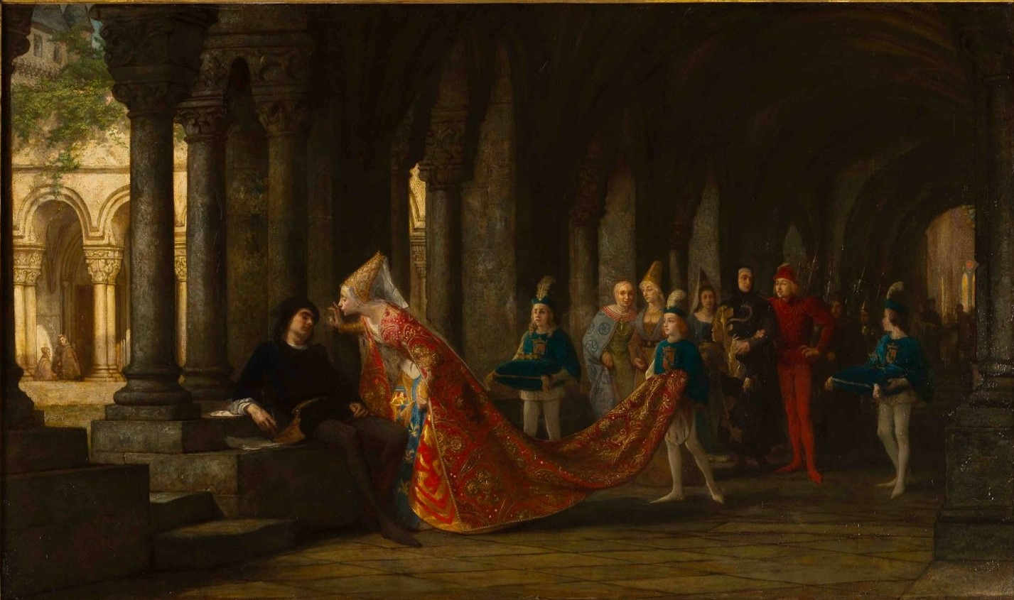 Alain Chartier and Margaret of Scotland, or "The Kiss", painting by Pierre-Charles Comte, 1859